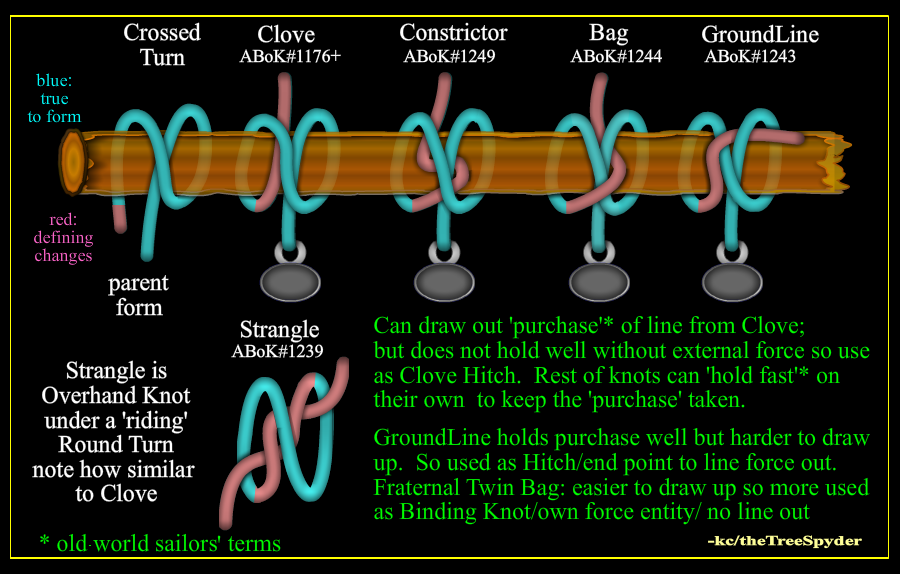 Clove, Constrictor, Bag(Miller's), GroundLine and Strangle Hitches as Crossed Turn family